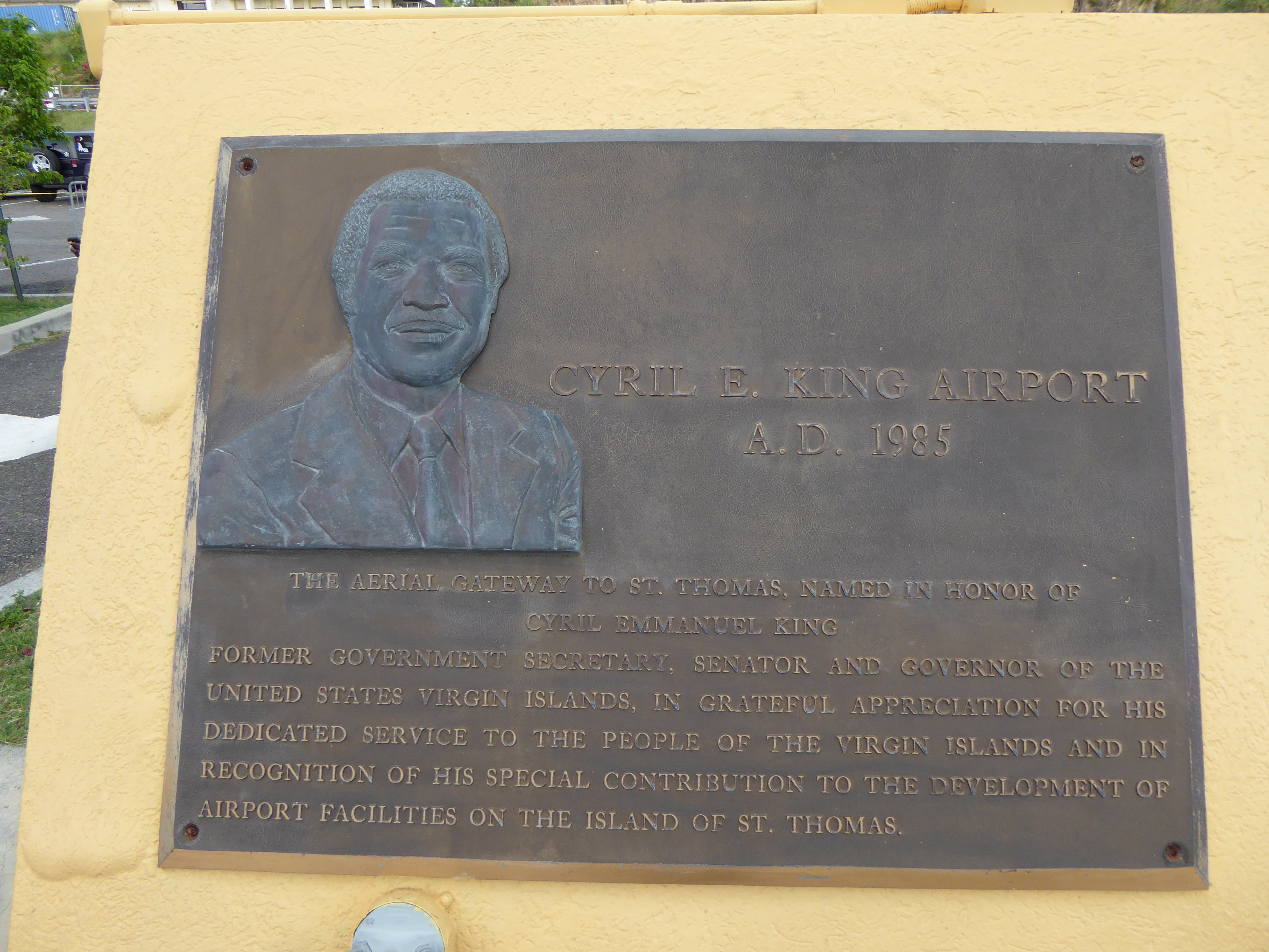 plaque